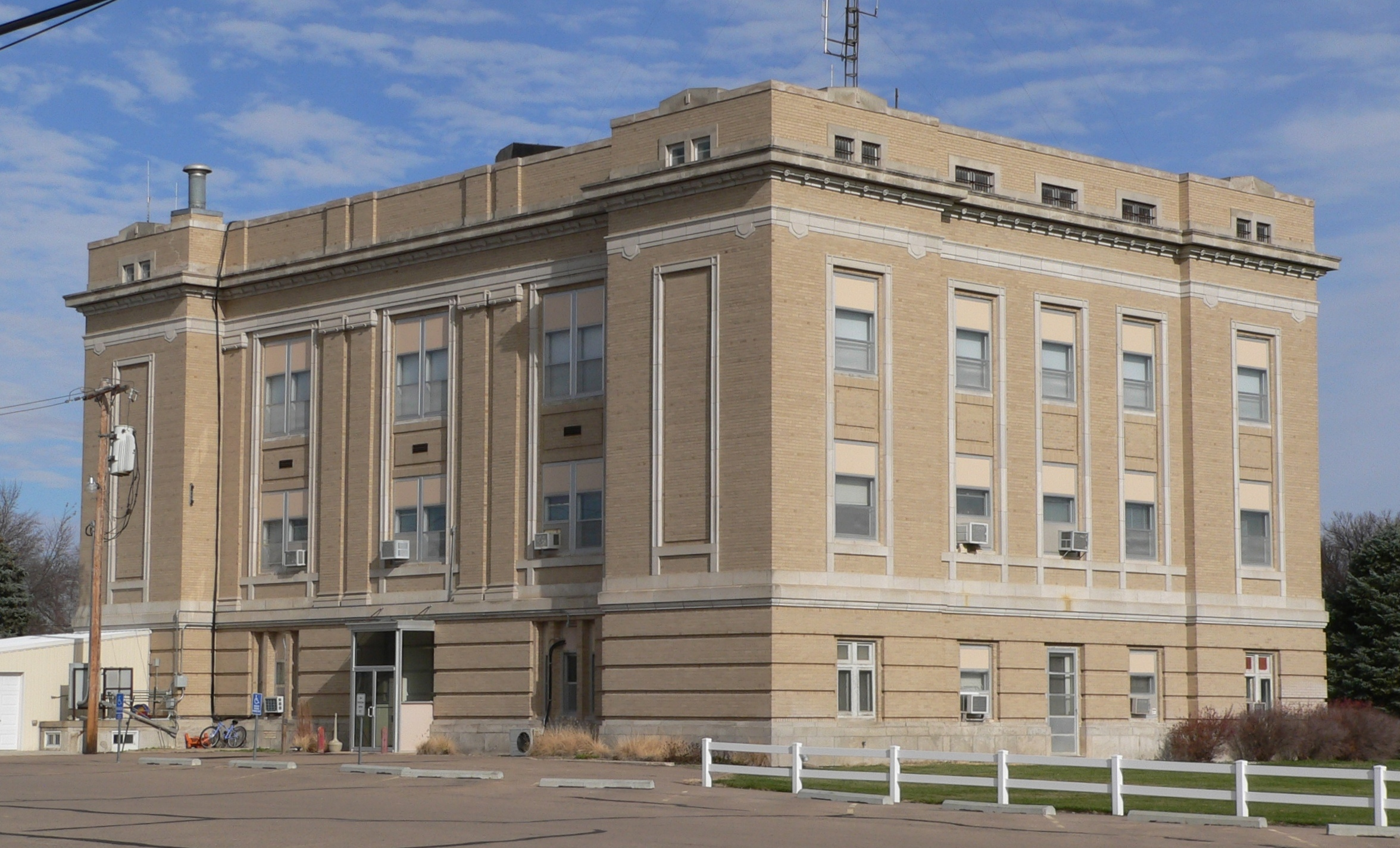 Franklin County Courthouse in Franklin, Nebraska, seen from the southwest. The building was designed in Classical Revival style by architect George A. Berlinghof, and built in 1925. It is listed in the National Register of Historic Places.